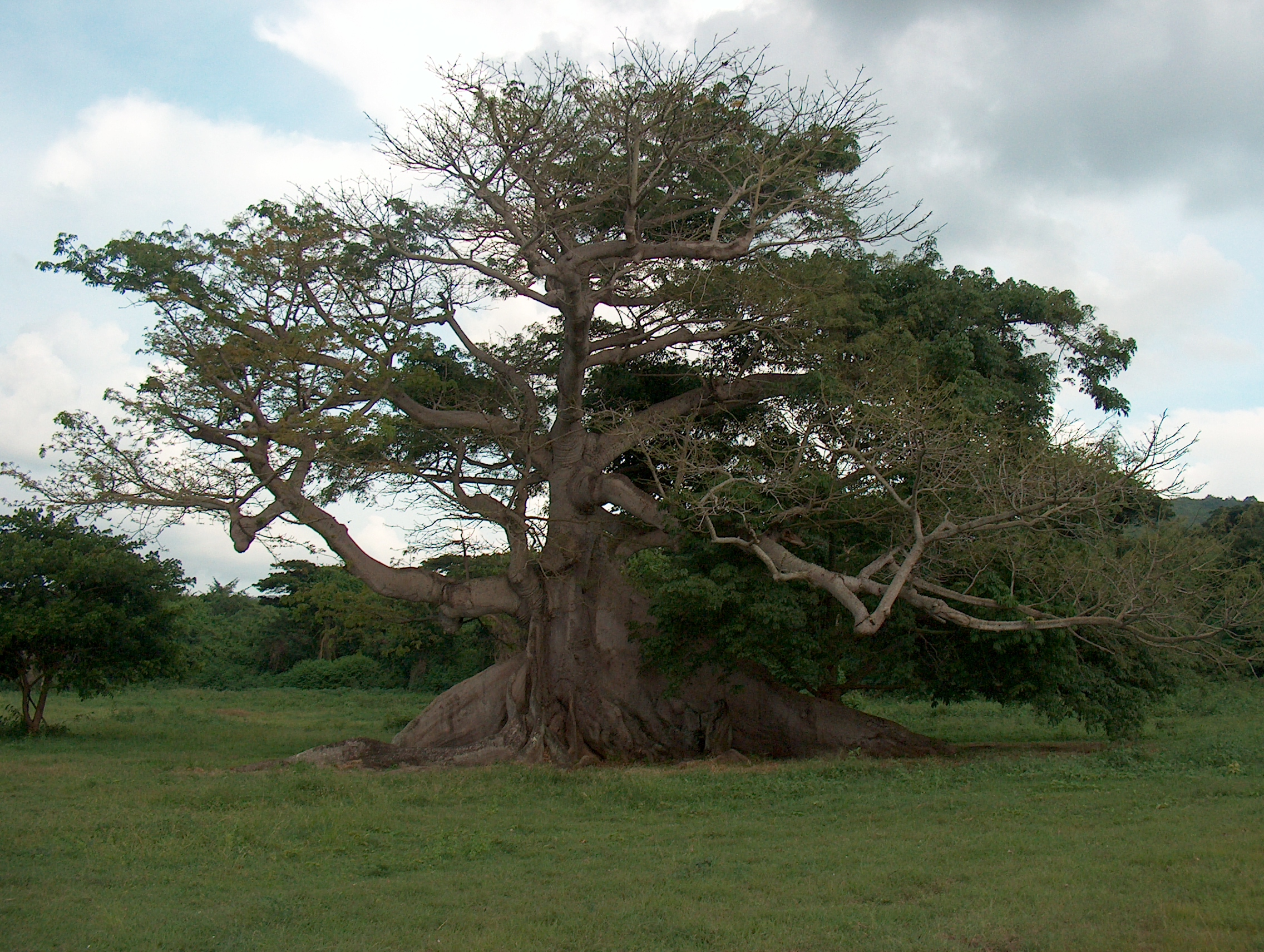 The 300-year-old ceiba tree, Vieques, Puerto Rico